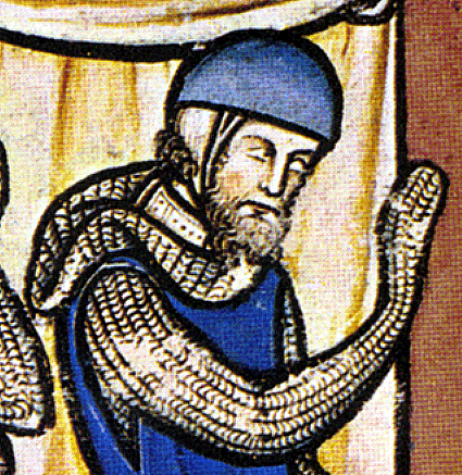 Iisus Navin and The Gibeonites